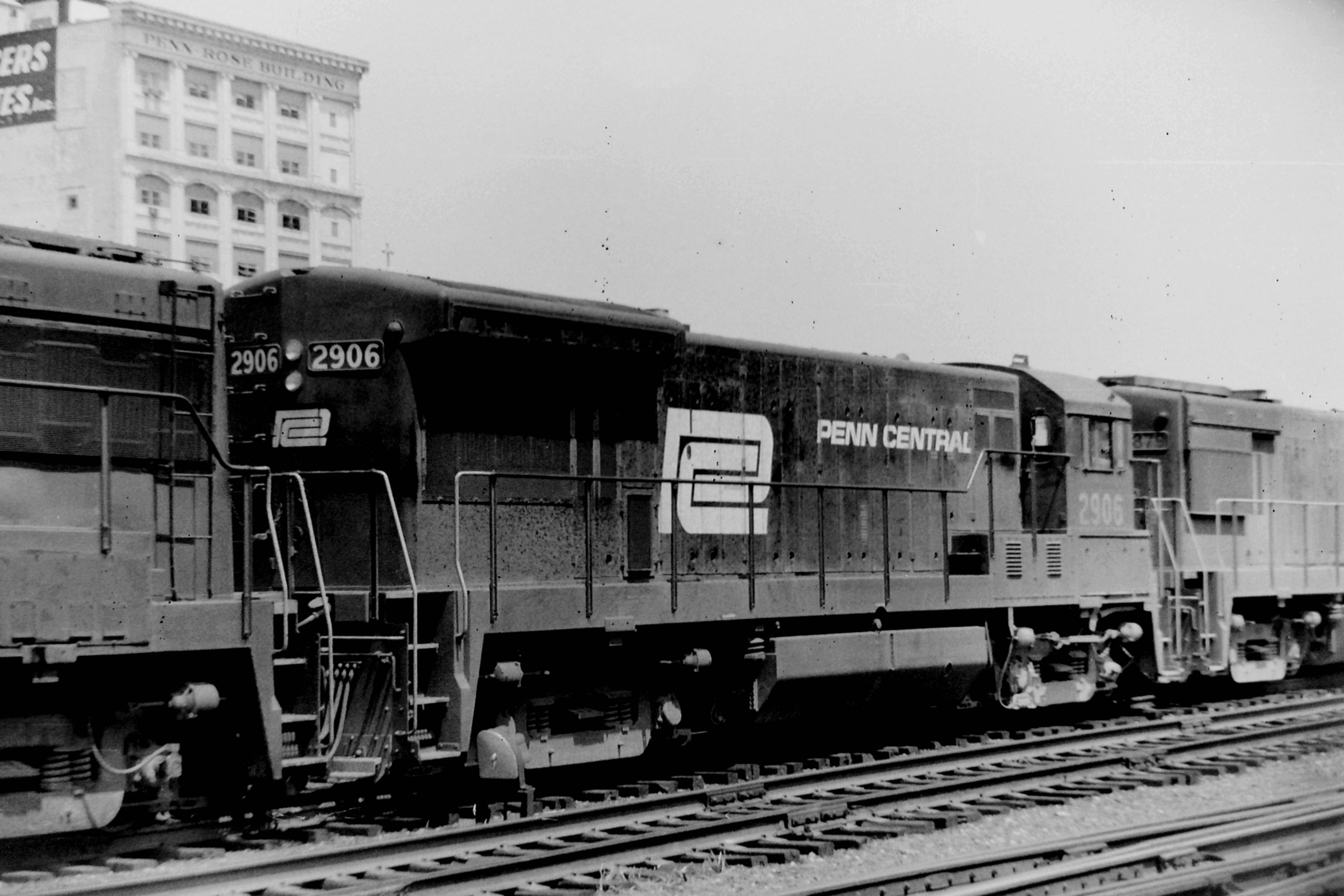 Penn Central GE U33B #2906 on a triple-headed freight passing through Penn Central Station, Pittsburgh, 7/70.